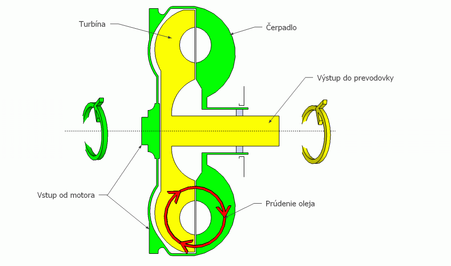 hydrodynamic clutch / brake.